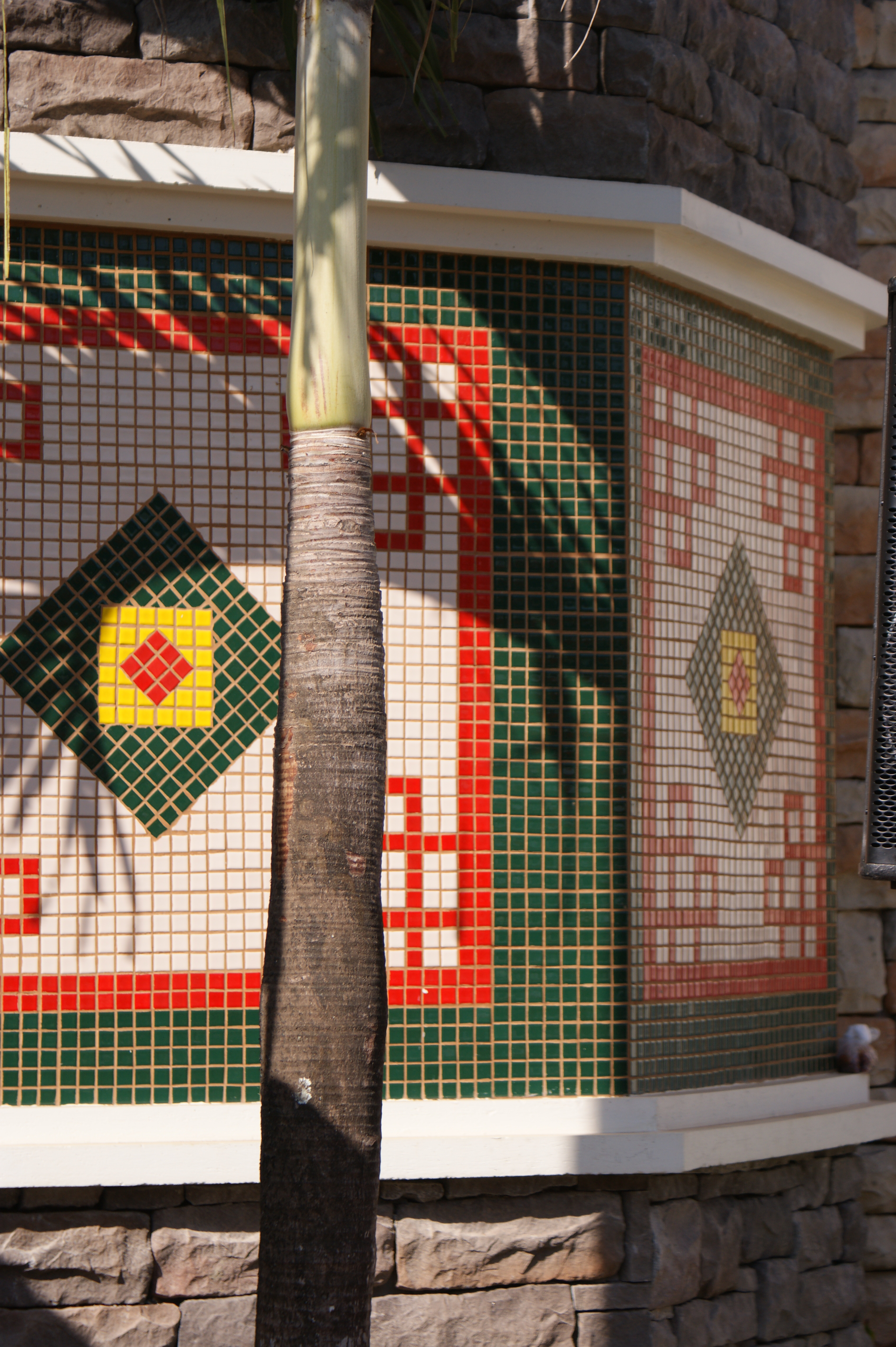 Ban Hoe Mosque located in Chiang Rai, is the biggest mosques in the province.